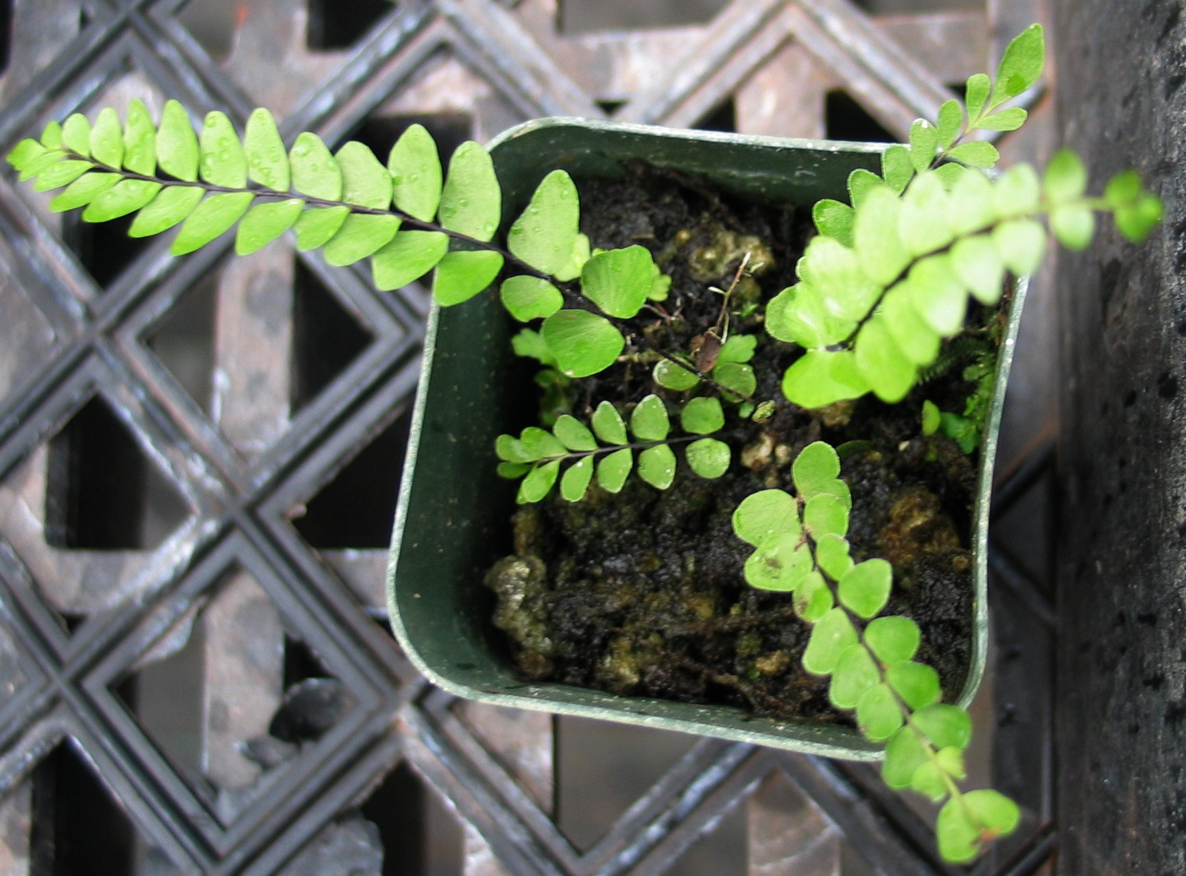 A cultivated specimen of Asplenium unisorum (syn. Diellia unisora), the singlesorus island spleenwort, an endangered fern indigenous to O'ahu.